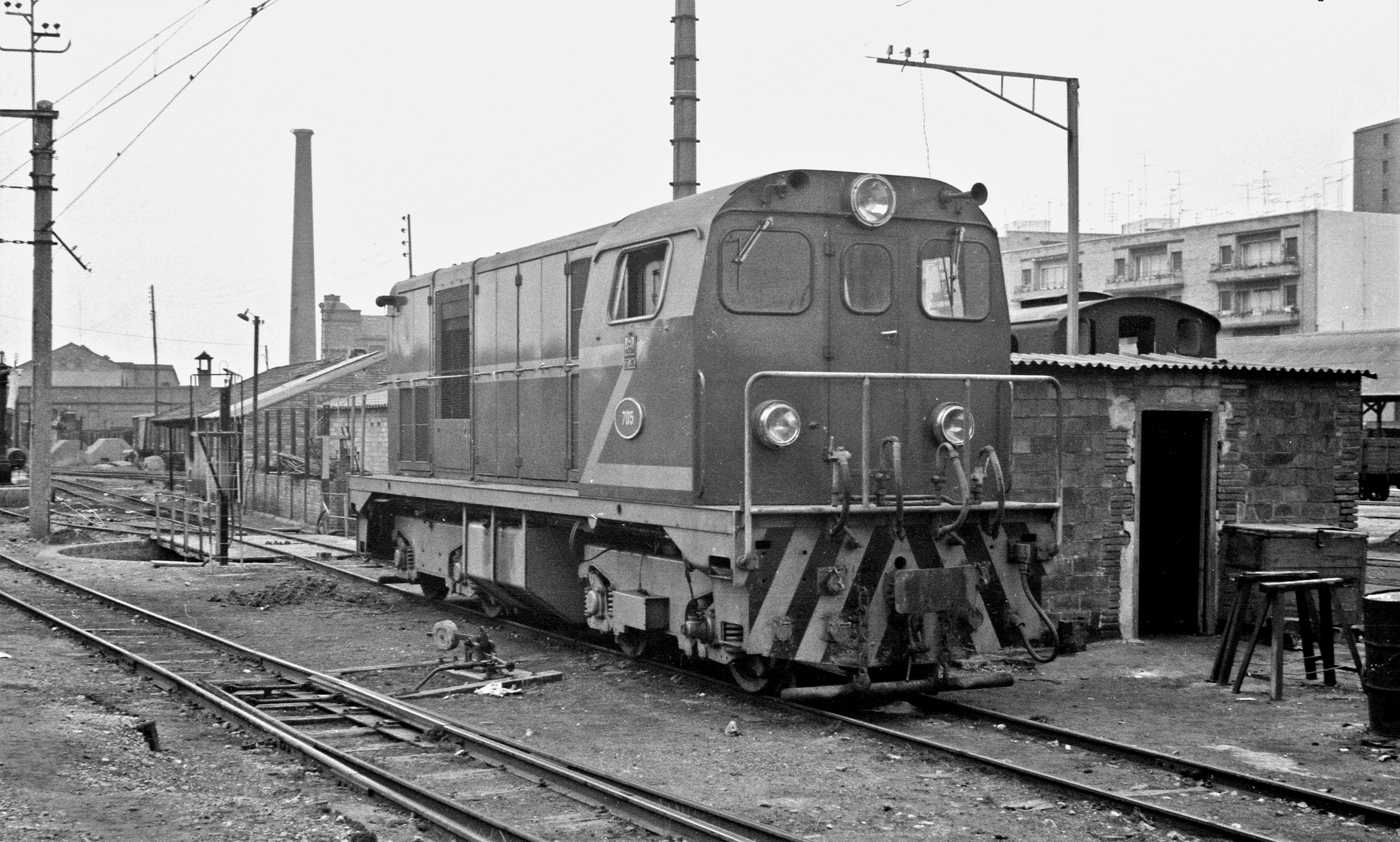 The Asthom 705 diesel locomotive of the Compañía General de los Ferrocarriles Catalanes (CGFC) at La Magòria station in Barcelona.